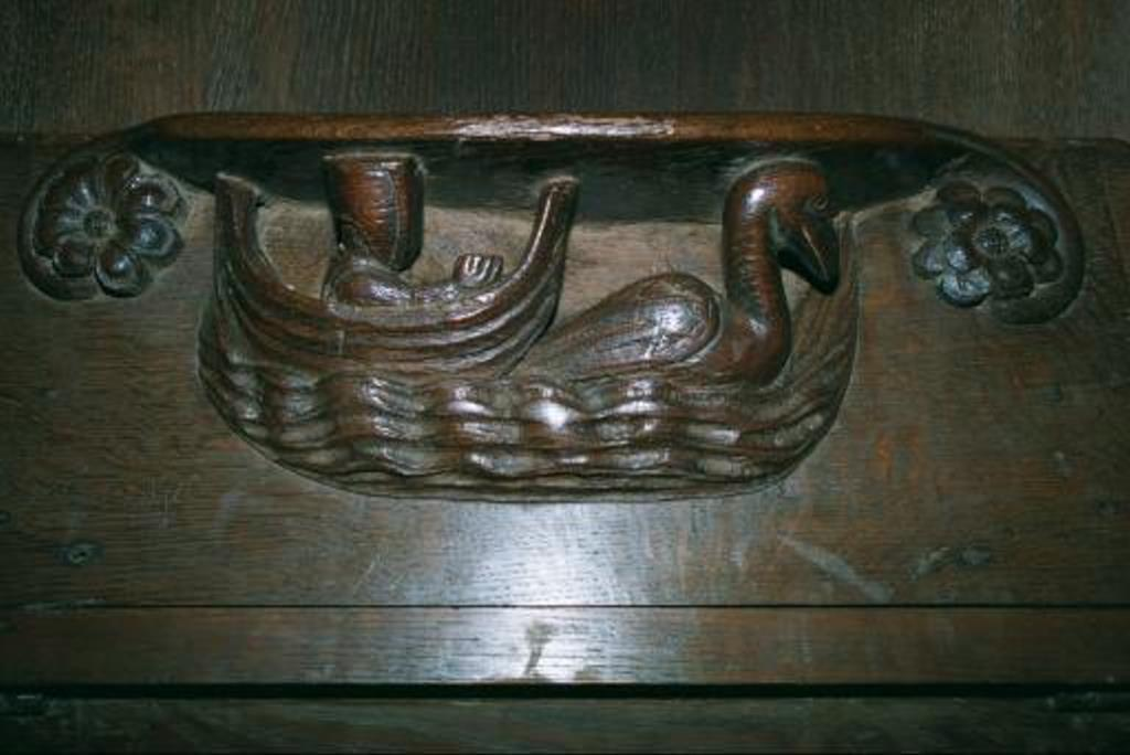 Knight of the Swan, misericord in the Exeter Cathedral